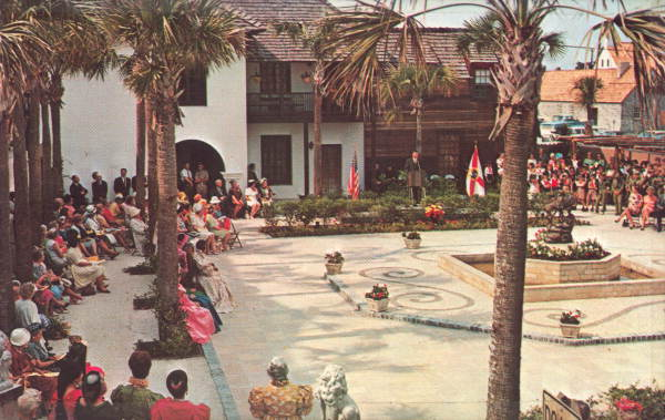 Special event in the Hispanic Garden in St. Augustine Florida. The Garden was constructed by the Historic St. Augustine Preservation Board.